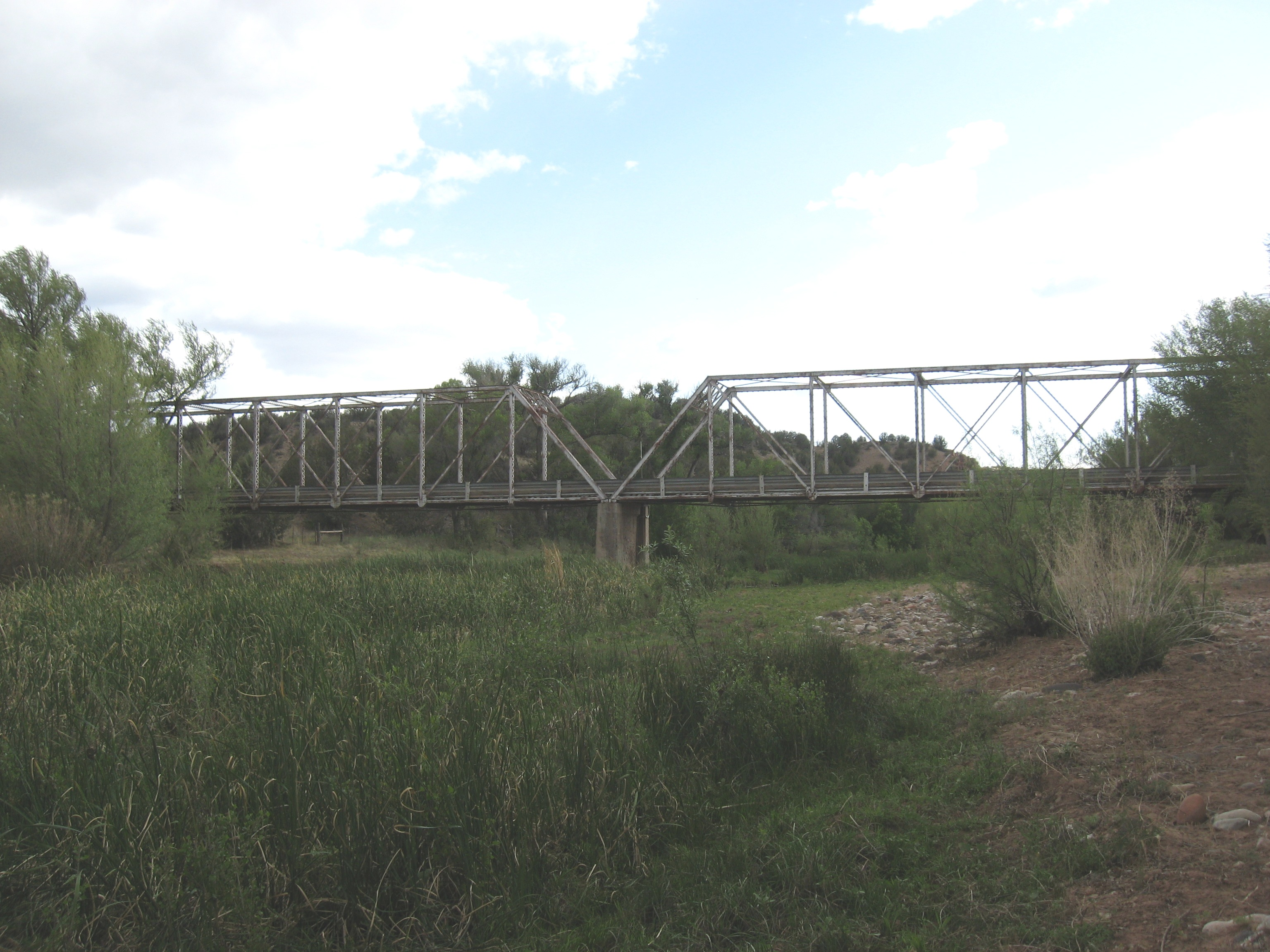 Perkinsville Bridge, over the Verde River, on Perkinsville-Williams Rd., Perkinsville, Yavapai County, Arizona